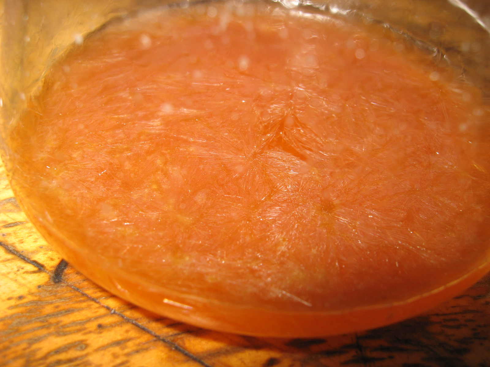 Image of a single solvent, slowly cooling ibuprofen salt crystallizing.